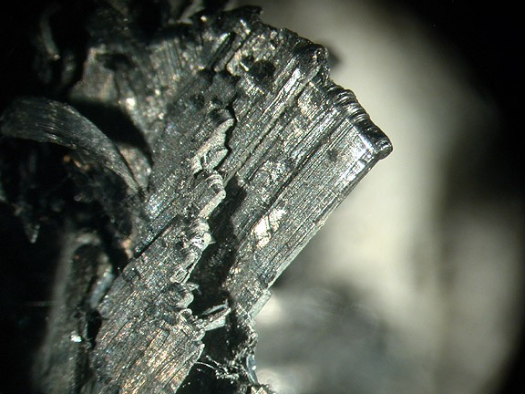 Franckeite (Var.: Potosíite) Locality: San José Mine, Oruro City, Cercado Province, Oruro Department, Bolivia (Locality at ) Size: 3.1 x 2.1 x 1.8 cm. This specimen is a very attractive, incredibly rare, superb quality, crystallized specimen of the triclinic lead, antimony, iron, tin sulfosalt Potosiite consisting of several, extremely rare, highly lustrous, heavily striated, tabular blades (some are twinned) of Potosiite measuring up to 6 mm (!) sitting atop crystallized and the equally rare triclinic lead, tin, iron, antimony sulfosalt Franckeite. For those of you who are unaware, the crystals of Potosiite on this specimen are EXCEPTIONALLY LARGE for the species.